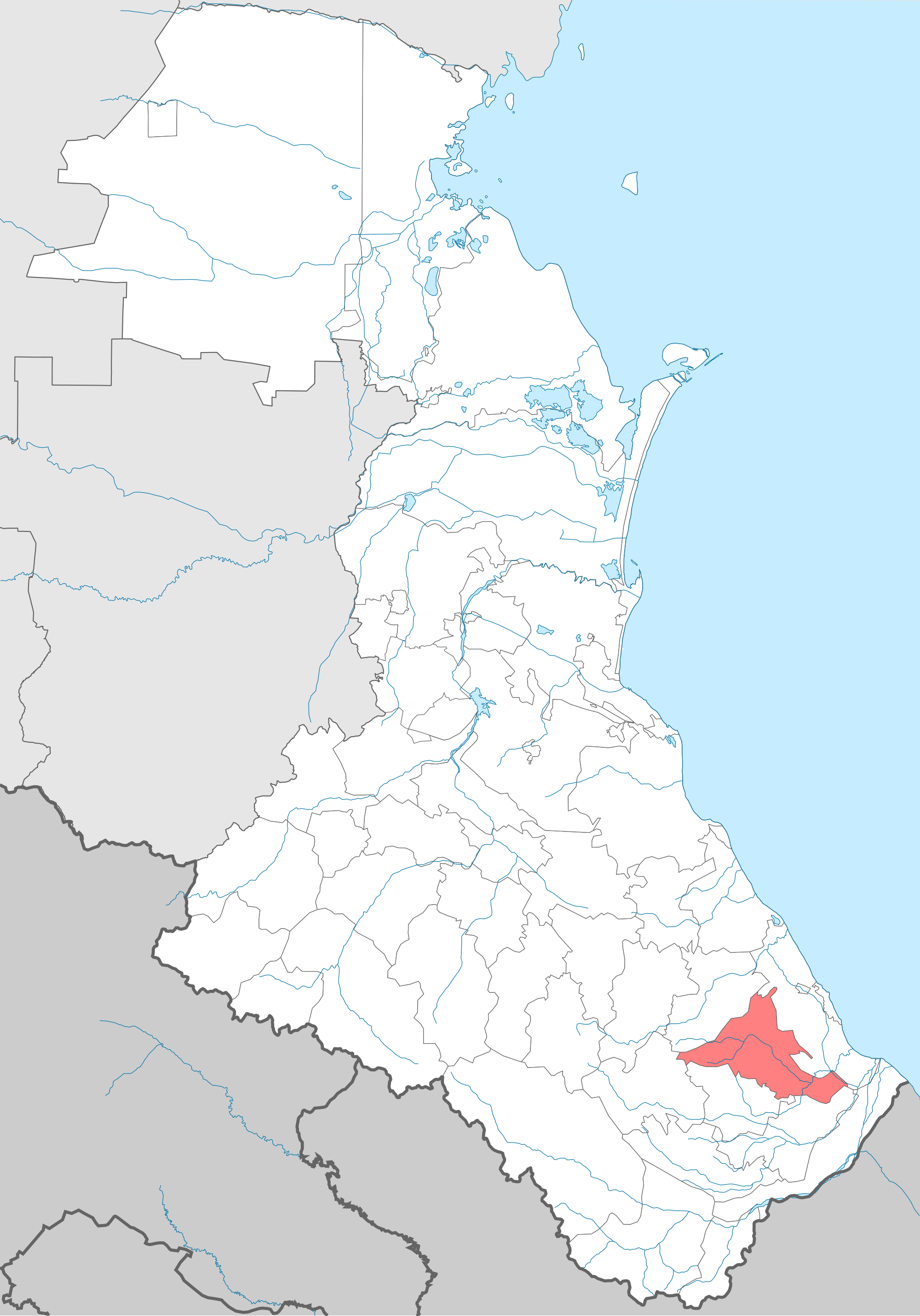 Tabasaransky district locator map